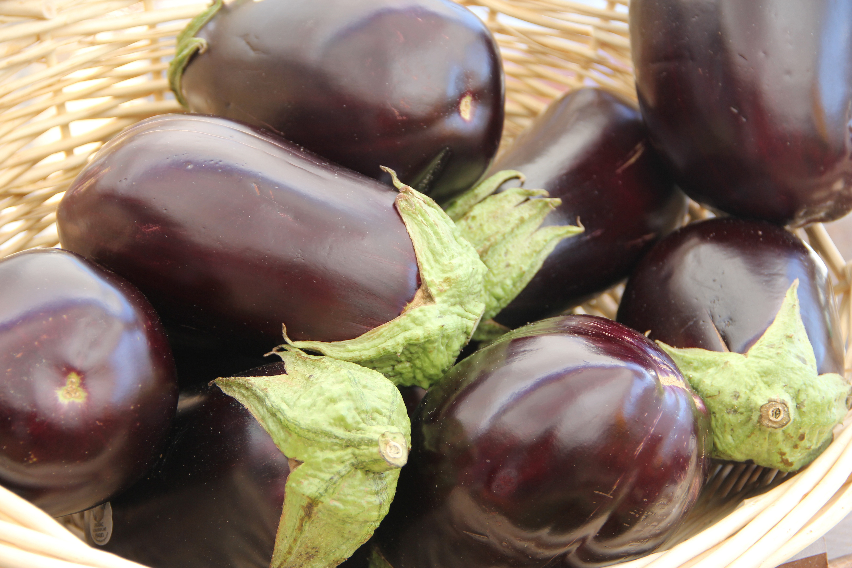 Piràmide d'aliments de l'Empordà